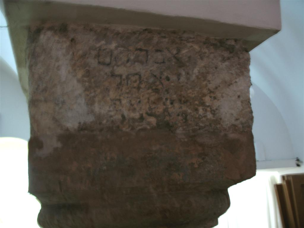 Ramban synagogue in Jerusalem. Engravure on a pilar with names of Patriarchs, Abraham, Isaac and Jacob.